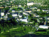 Panoramic View on Bar, Ukraine Made from Aircraft